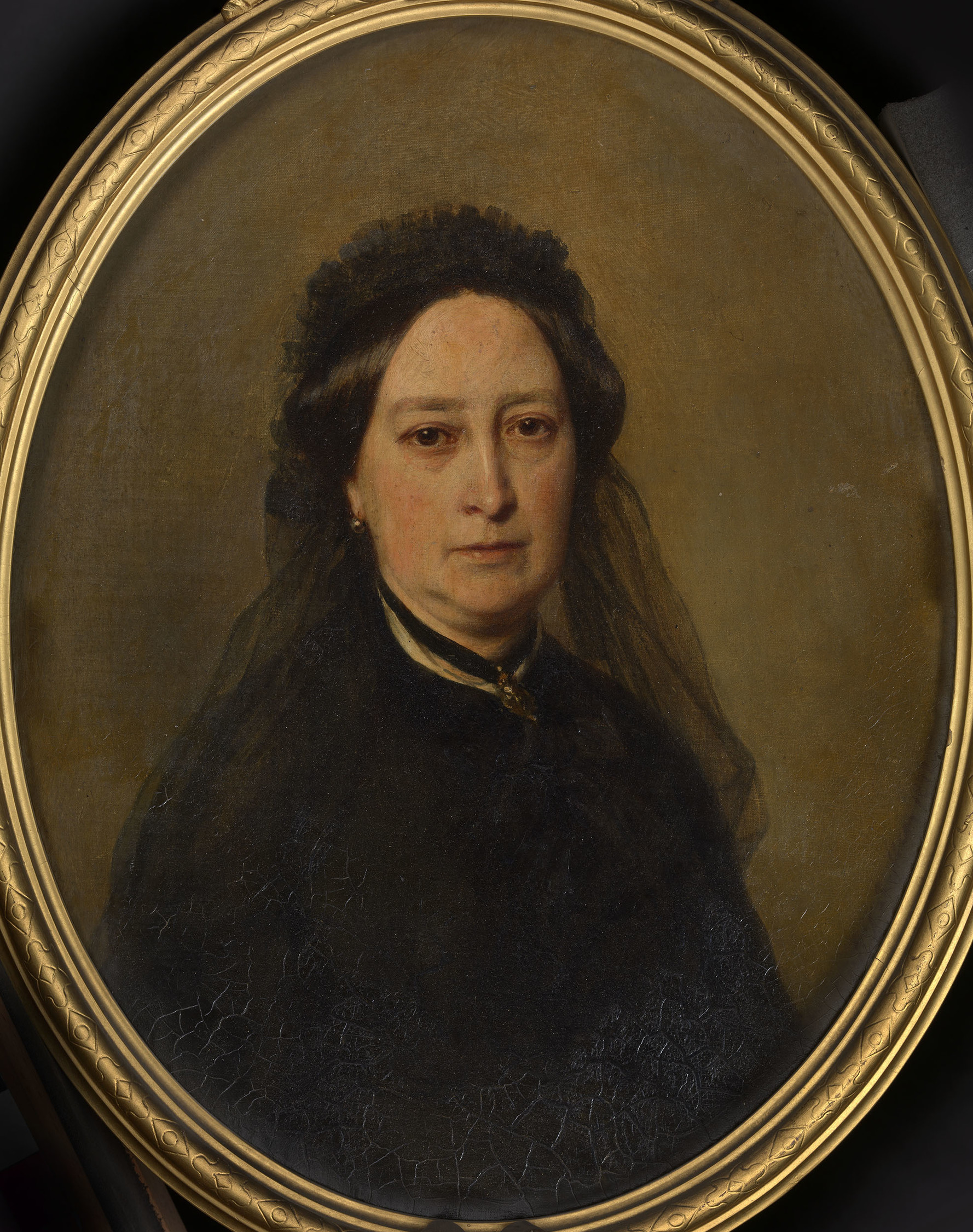 The Dowager Princess of Hohenlohe-Langenburg